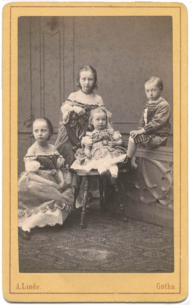 from left to right: princess Caroline Mathilde, princess Auguste Viktoria, princess Louise Sophie and prince Ernst Günther, CdV from August Linde, Gotha about 1869